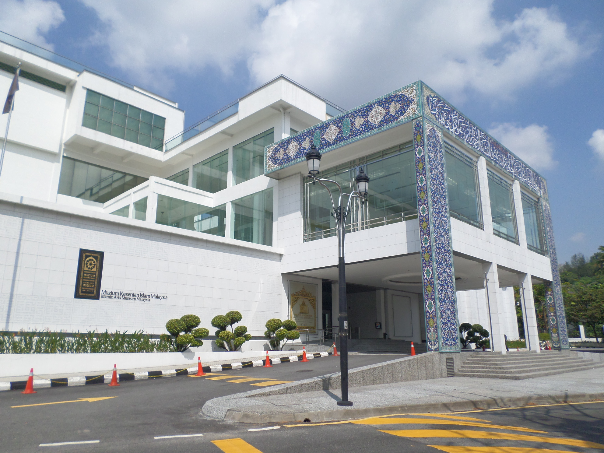 Islamic Arts Museum Malaysia, Perdana Botanical Gardens, Kuala Lumpur, Malaysia